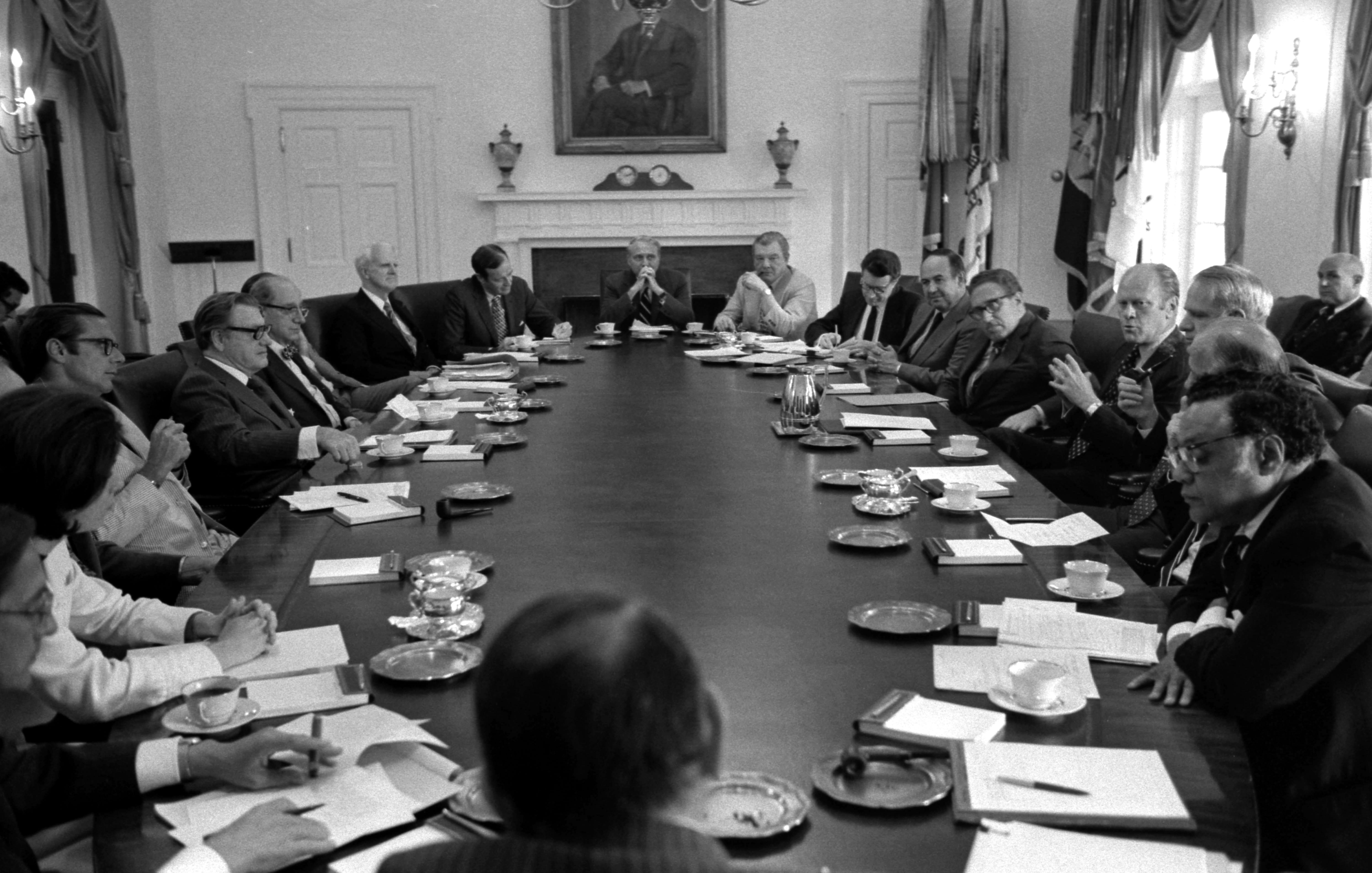 President Gerald Ford meets with his Cabinet